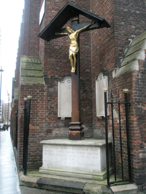 War memorial outside the parish church of the Annunciation, Bryanston Street, Marylebone, London W1, England